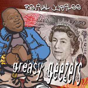 ggjubilee - 2012 i-innovate communications artwork